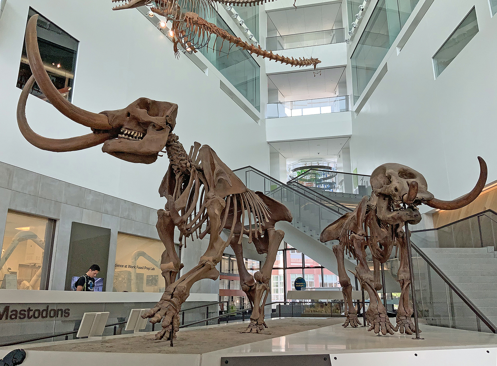 Mounted male (left) and female Mammut americanum skeletons at the new (2019) University of Michigan Museum of Natural History, Ann Arbor, Michigan. The male specimen is a cast of the skeleton of the Buesching mastodon (named after its discoverer) that was excavated from a peat bog near Fort Wayne, Indiana, and is thought (based on an unhealed puncture wound on the right side of its skull) to have been killed by a thrust of the tusk of a rival male.[1] The female was recovered near Owosso, Michigan. Both sets of fossils date to about 11,000 years ago. The male skeleton is mounted over a replica of a mastodon trackway found at the Brennan mastodon site near Saline, Michigan. See also: 3-D Viewers of male and female mastodon skeletons at the University of Michigan Mammutidae digital fossil repository, and On the Trail of Mastodons (video)